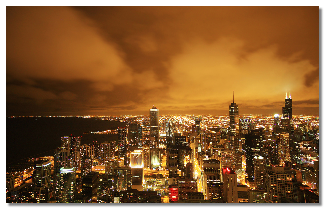 A view of the Windy City from the 96th floor of John Hancock Center. This center is a 100 story (1500 ft) skyscraper (5th tallest in the world). Some more photographs ... View On Black Explored! :) Trackback